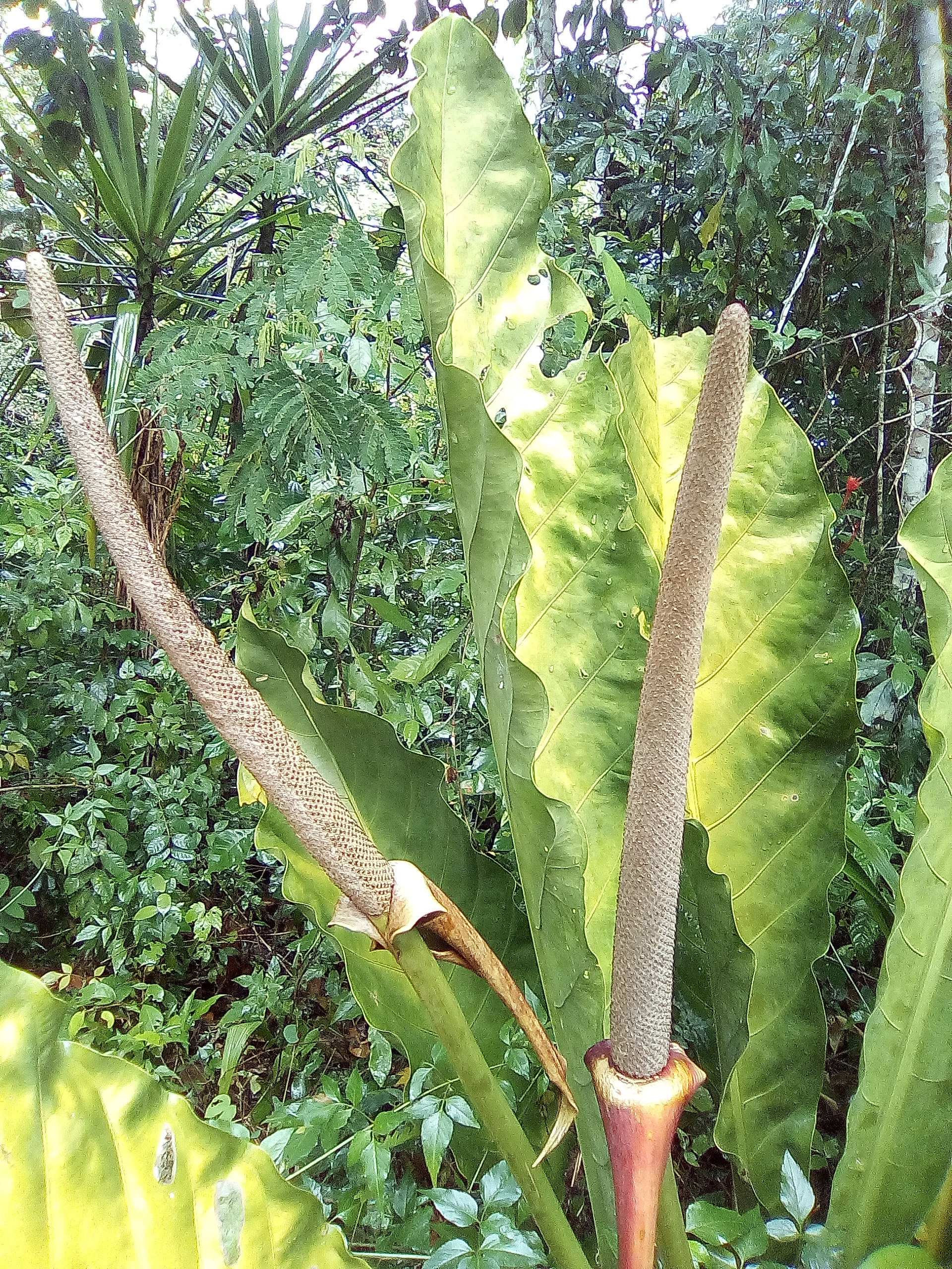 Known as Cola de Fasian